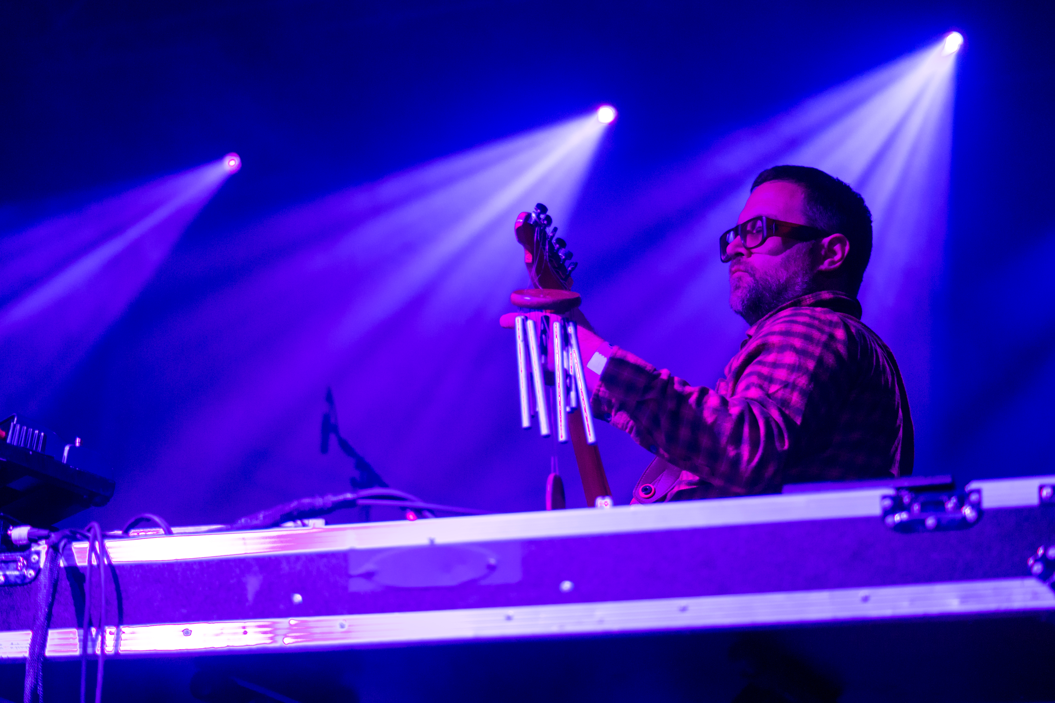 TVOTR-MainStage-Treefort-Credit-Amanda-Morgan-3